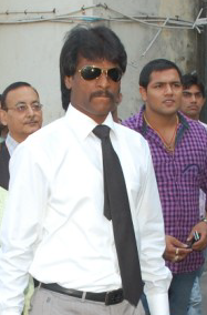 Dhanraj Pillay, former Indian field hockey player and captain, attending annual sports meet of GGSIPU in Delhi as a chief guest.